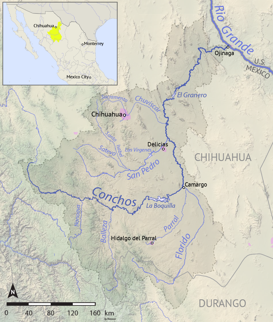 Map of the Rio Conchos drainage basin, in Chihuahua, Mexico. Made using SRTM and OpenStreetMap data.